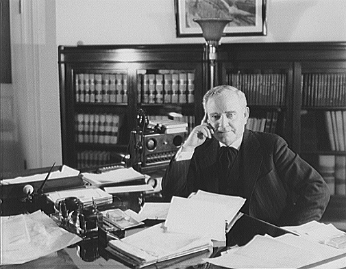 Comptroller General of the United States John Raymond McCarl at his desk in 1935.